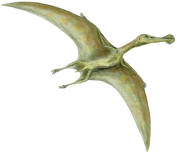 Ornithocheirus simus, a pterosaur from the Early Cretaceous of the UK, pencil drawing